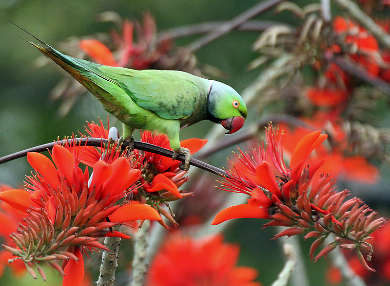 Rose-ringed Parakeet Psittacula krameri in Kolkata, West Bengal, India.